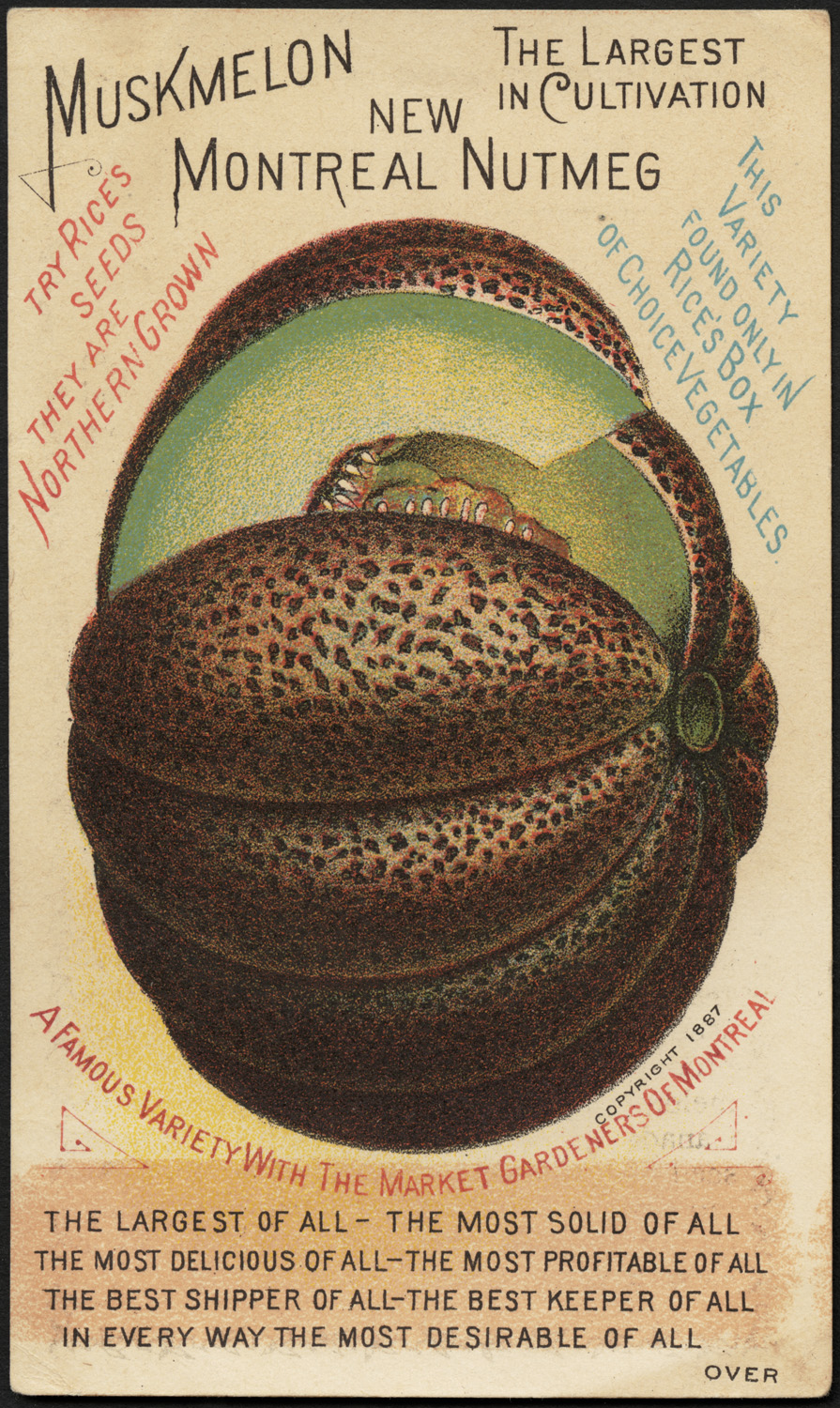 File name: 10_03_001667a Binder label: Agriculture Title: Muskmelon, the largest in cultivation - new Montreal Nutmeg. This variety found only in Rice's box of choice vegetables. (front) Copyright date: 1887 Physical description: 1 print : chromolithograph ; 14 x 8 cm. Genre: Advertising cards Subject: Melons; Seeds Notes: Title from item. Collection: 19th Century American Trade Cards Location: Boston Public Library, Print Department Rights: No known restrictions.